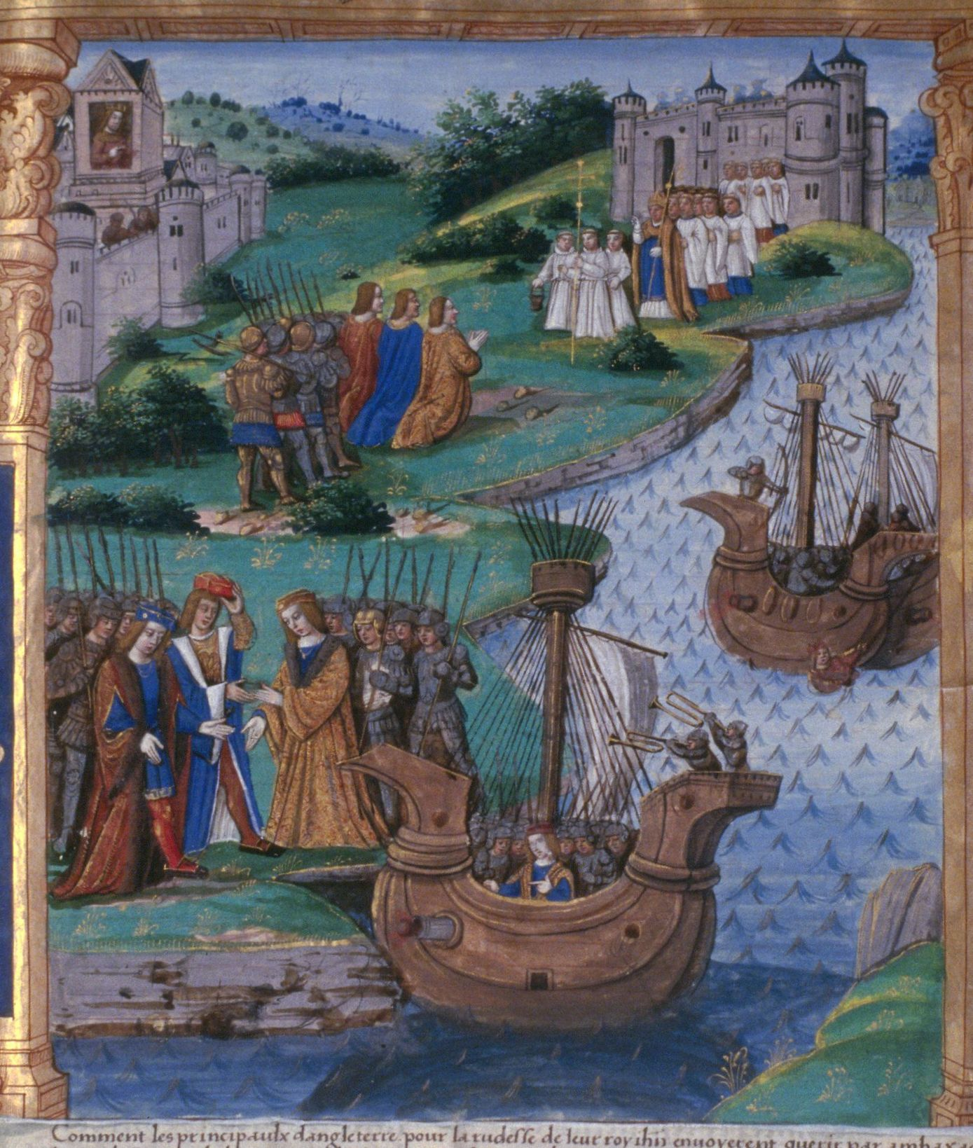 Louis VIII in London, 1216 (La Toison d'or, 15-16th century)